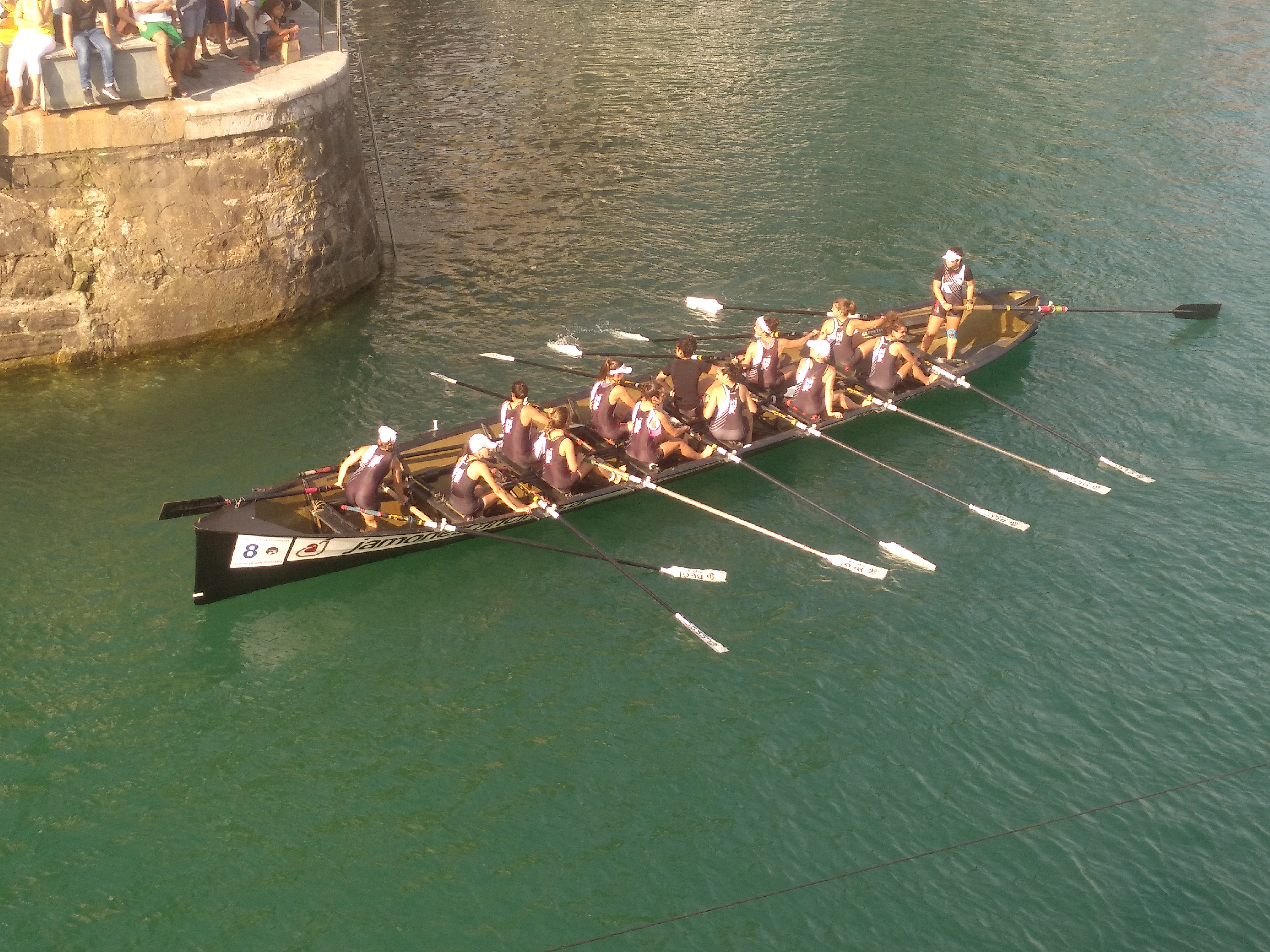 Hibaika Arraun Elkartea, women, Flag of La Concha, 2018